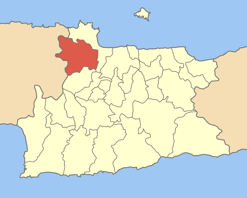 Locator map of Tylisos municipality (Δήμος Τυλίσου) in Iraklio prefecture (Νομός Ηρακλείου) in Greece.